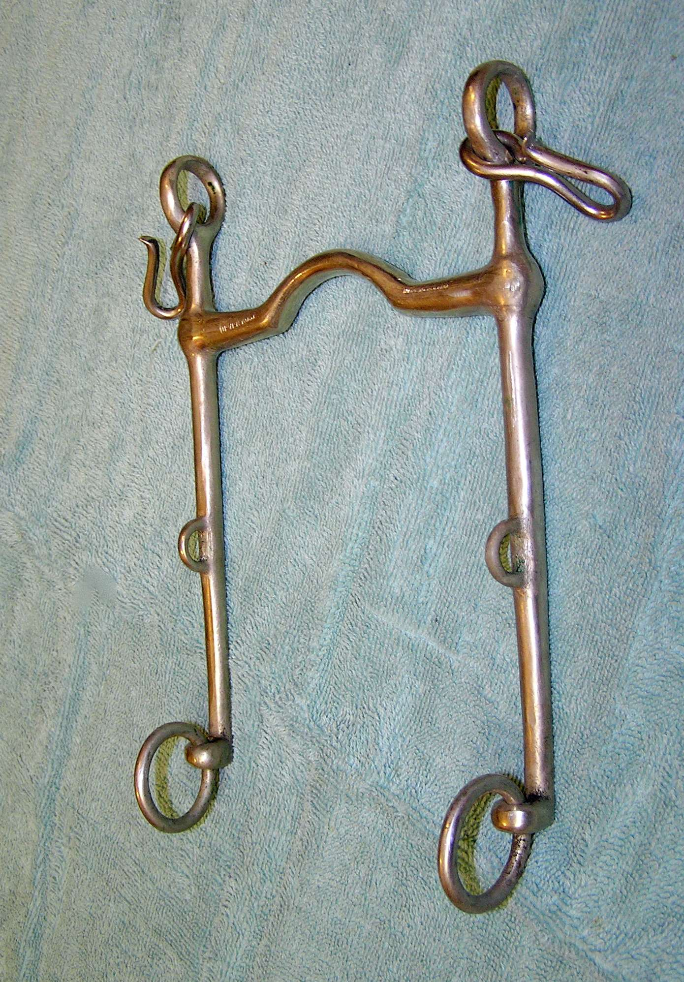 Another angle on a weymouth style curb bit for Saddle Seat- style English riding